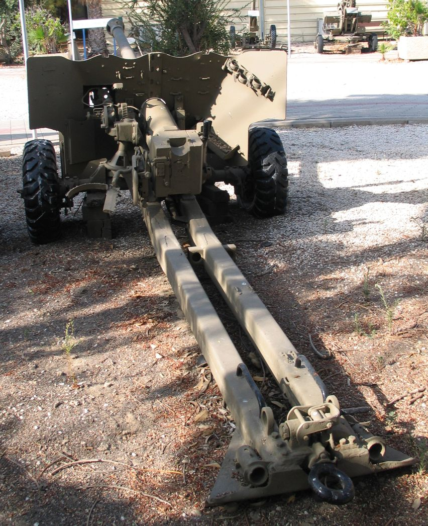 Description: Ordnance QF 6 pounder anti-tank gun in Batey ha-Osef museum, Tel Aviv, Israel. 2005. Source: Photo by me, User:Bukvoed.